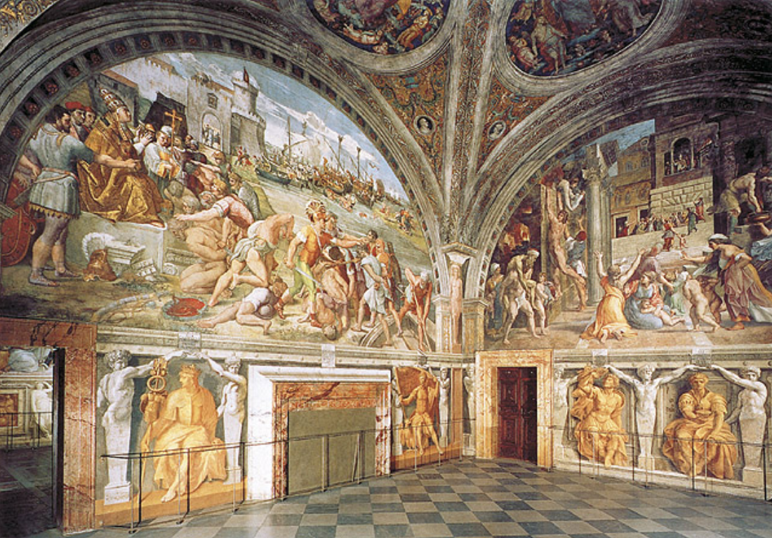 Stanza dell'Incendio del Borgo.